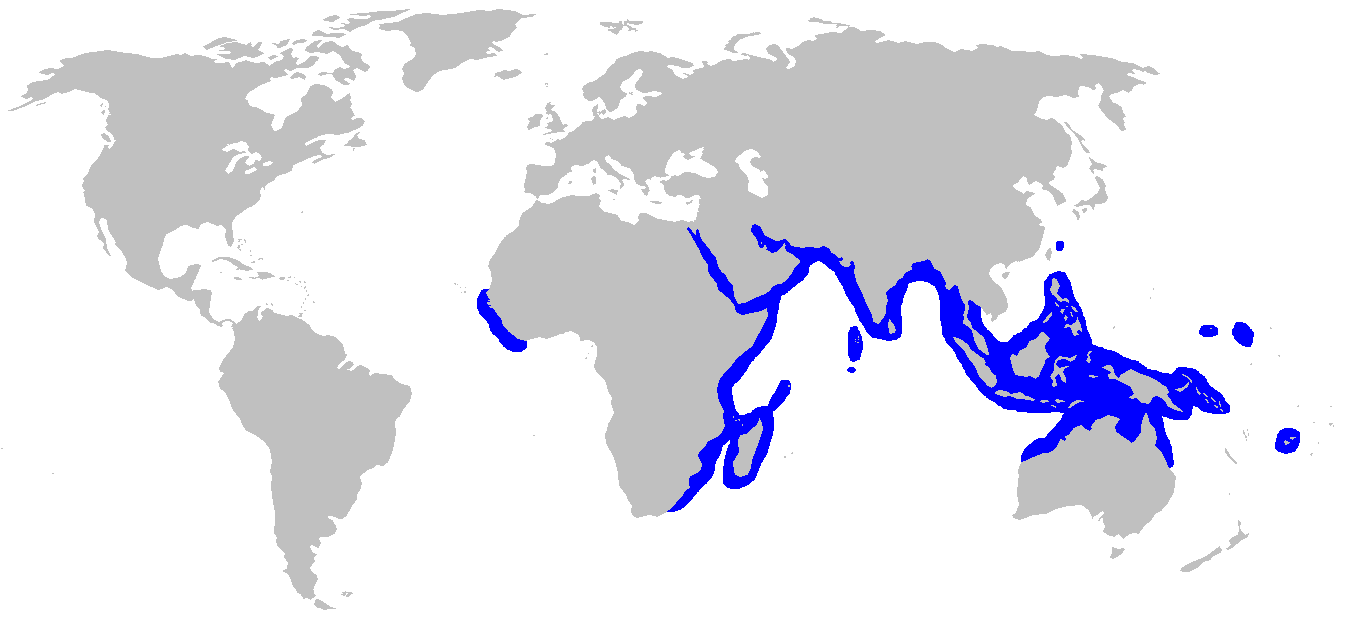 Range of the porcupine ray (Urogymnus asperrimus), based on Last and Stevens (2009).